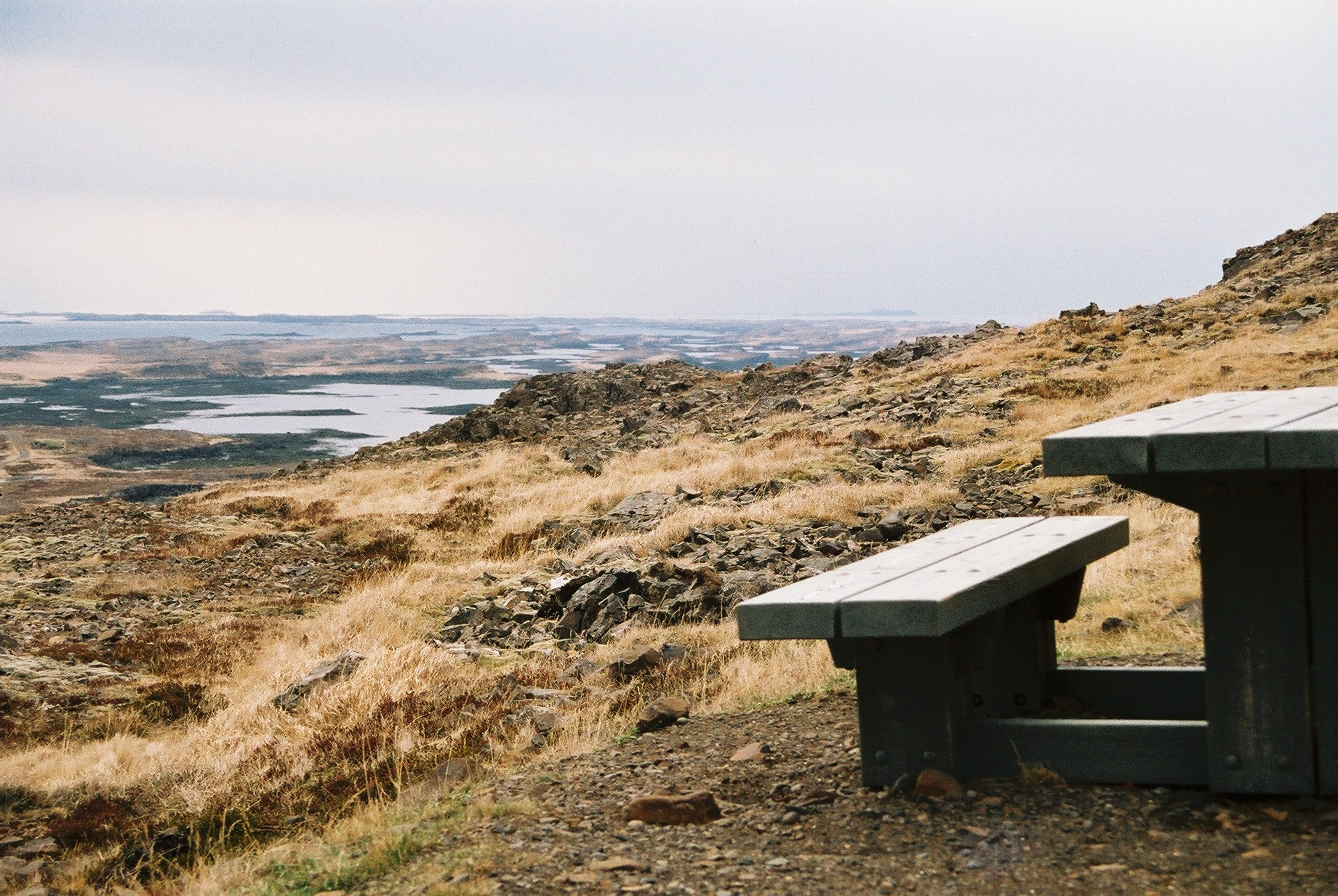 Klofningur, Breiðafjörður, Iceland